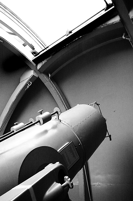 Shot of the 18 Inch Schmidt Camera at Palomar, taken from inside the dome with the doors open during the day.